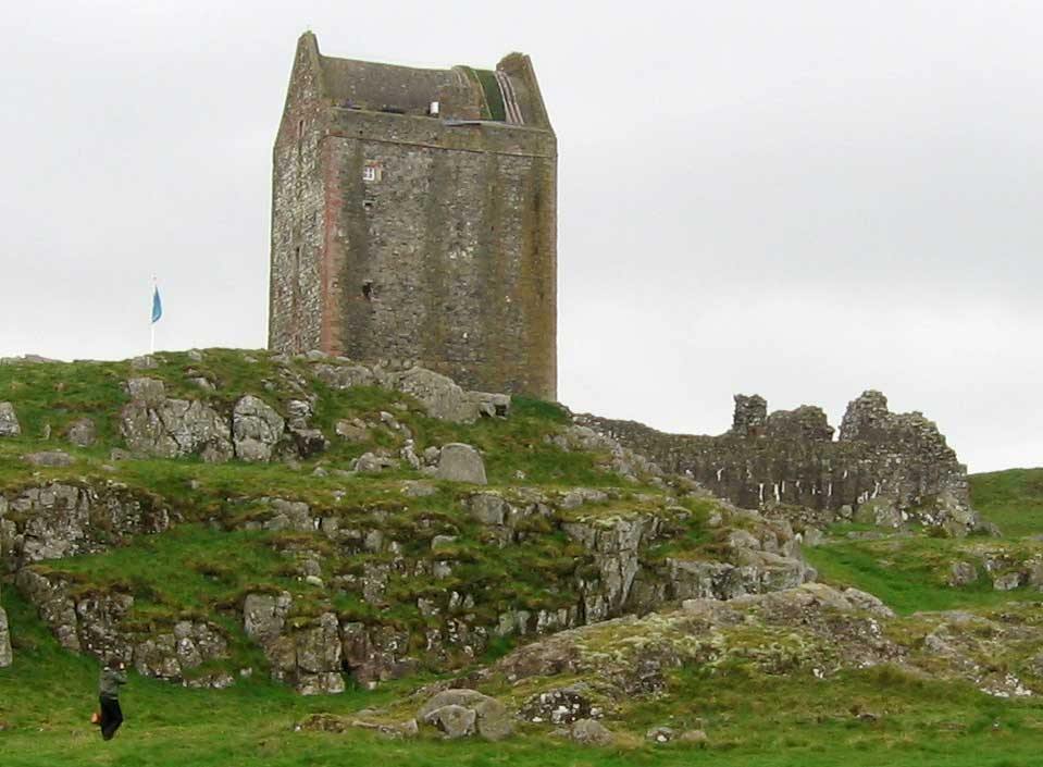 Smailholm Tower, Scotland, view from the north, showing the barmkin wall to the west of the tower.